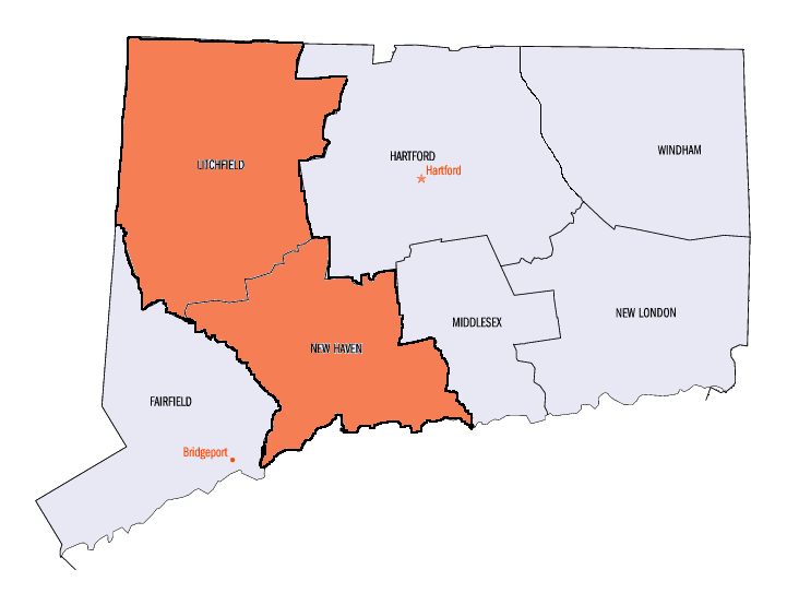 New Haven and Litchfield counties Connecticut. 1st Connecticut Regiment recruitment areas in Connecticut.